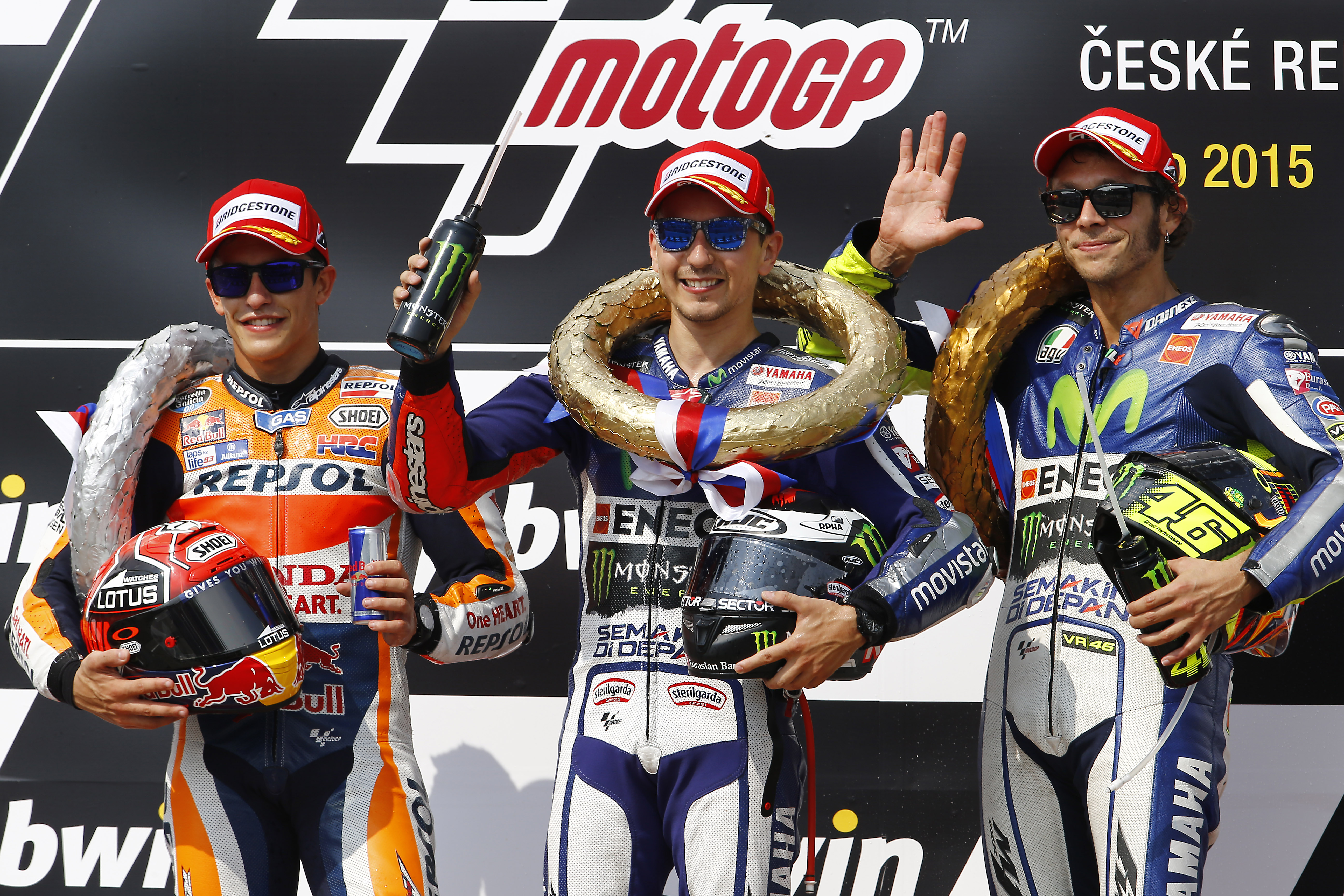 Marc Márquez, Jorge Lorenzo and Valentino Rossi, celebrating on the podium after finishing in second, first and third place at the 2015 Czech Republic Grand Prix.